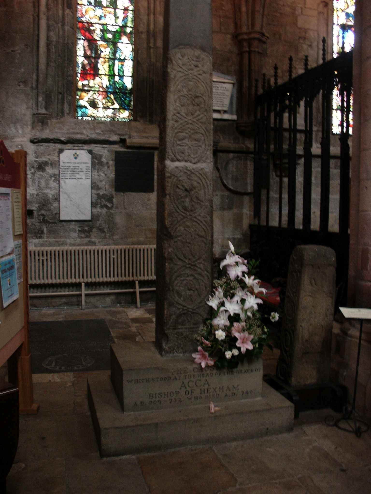 St. Acca's cross, Hexham Abbey, Hexham, England